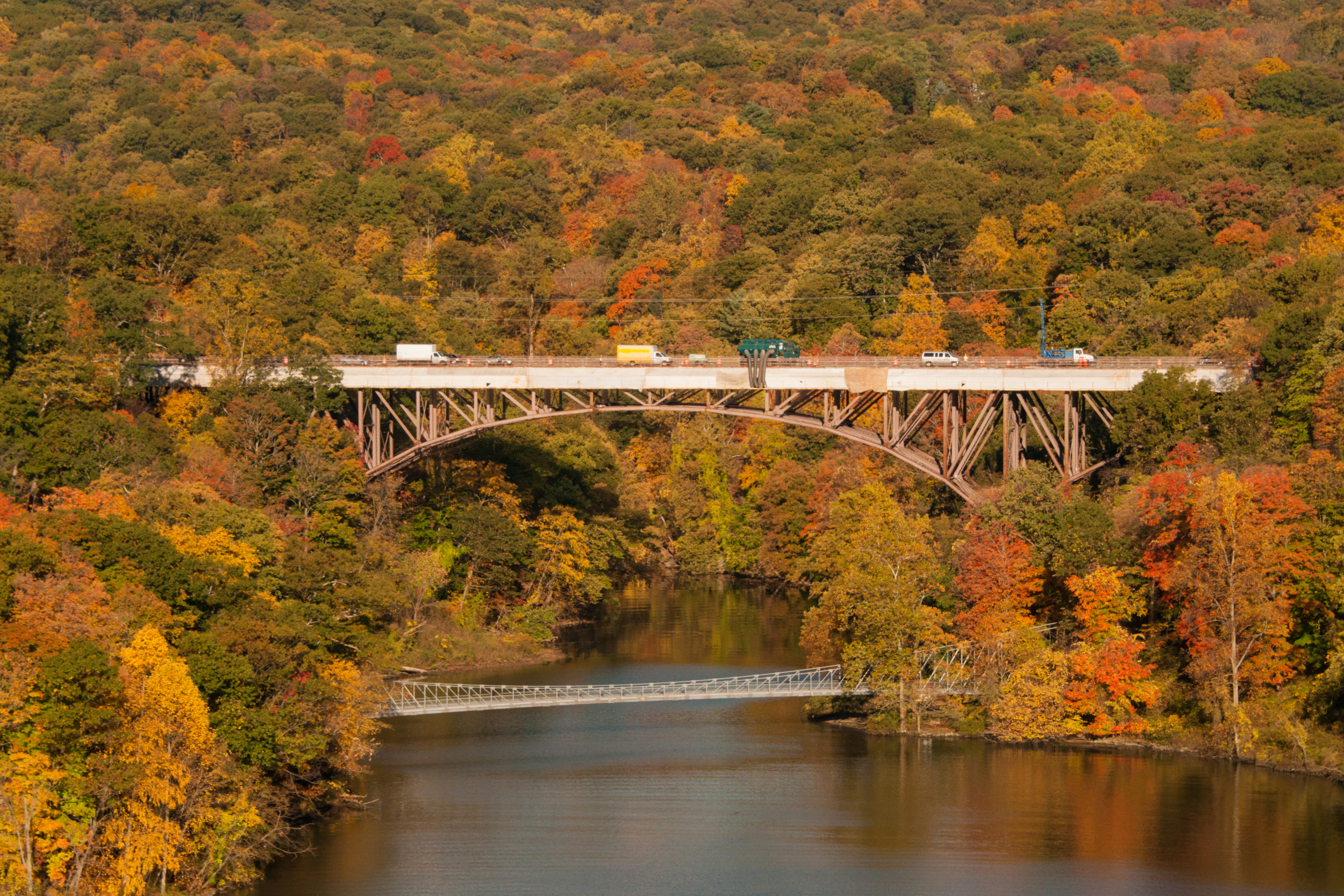 A footbridge and automobile bridge (which carries U.S. Route 9W) over Popolopen Creek in Orange County, New York, as viewed from the Bear Mountain Bridge.